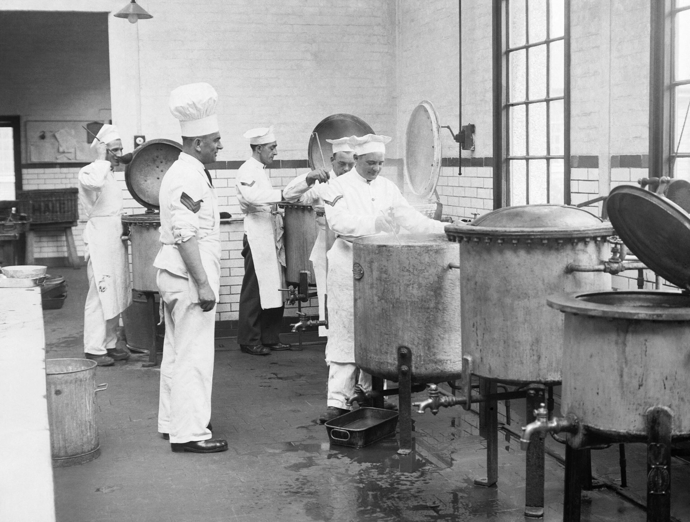 Army Catering Corps cooks preparing stew in the kitchens at Aldershot Barracks, November 1939. ? Army Catering Corps not formed till 1941 (Royal) Never had Royal prefix: Army Catering Corps cooks preparing stew in the kitchens at Aldershot Barracks, November 1939.